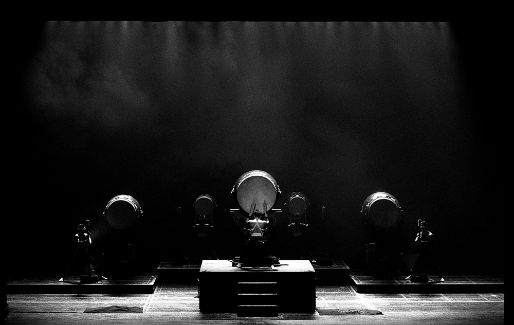 Eitetsu Hayashi performing on an ō-daiko with group for a 2001 concert in Tokyo, Japan